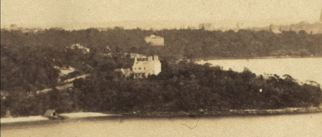 Lindesay, Darling Point circa 1855.